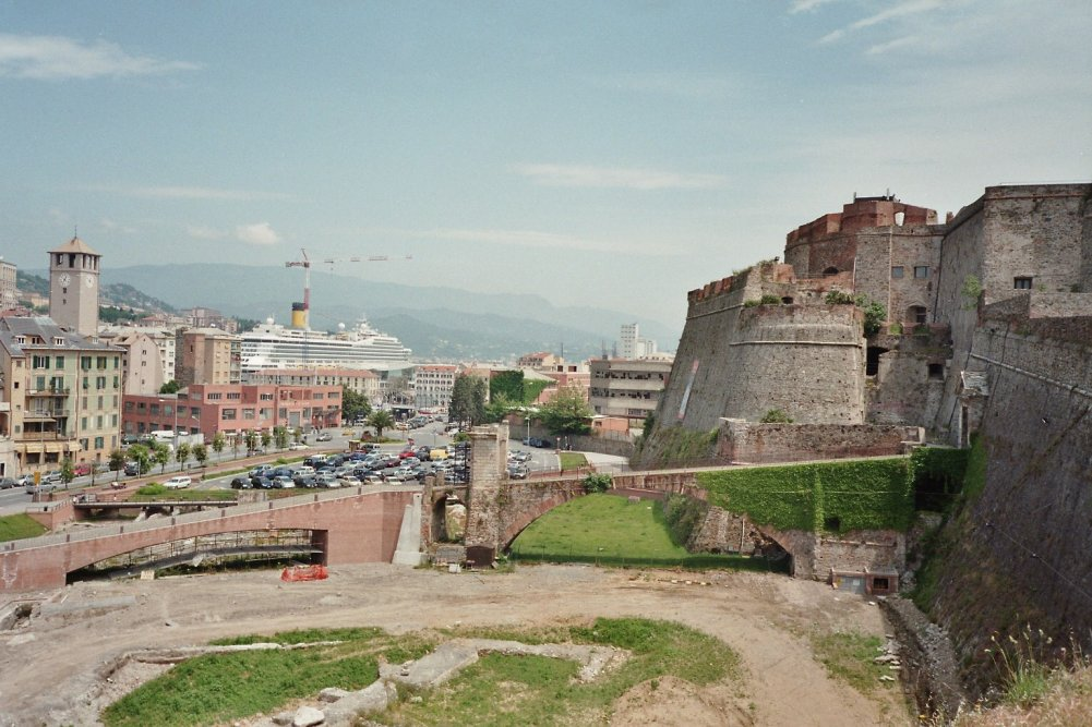 The town, the harbour and a part of the fortress of Savona in Italy